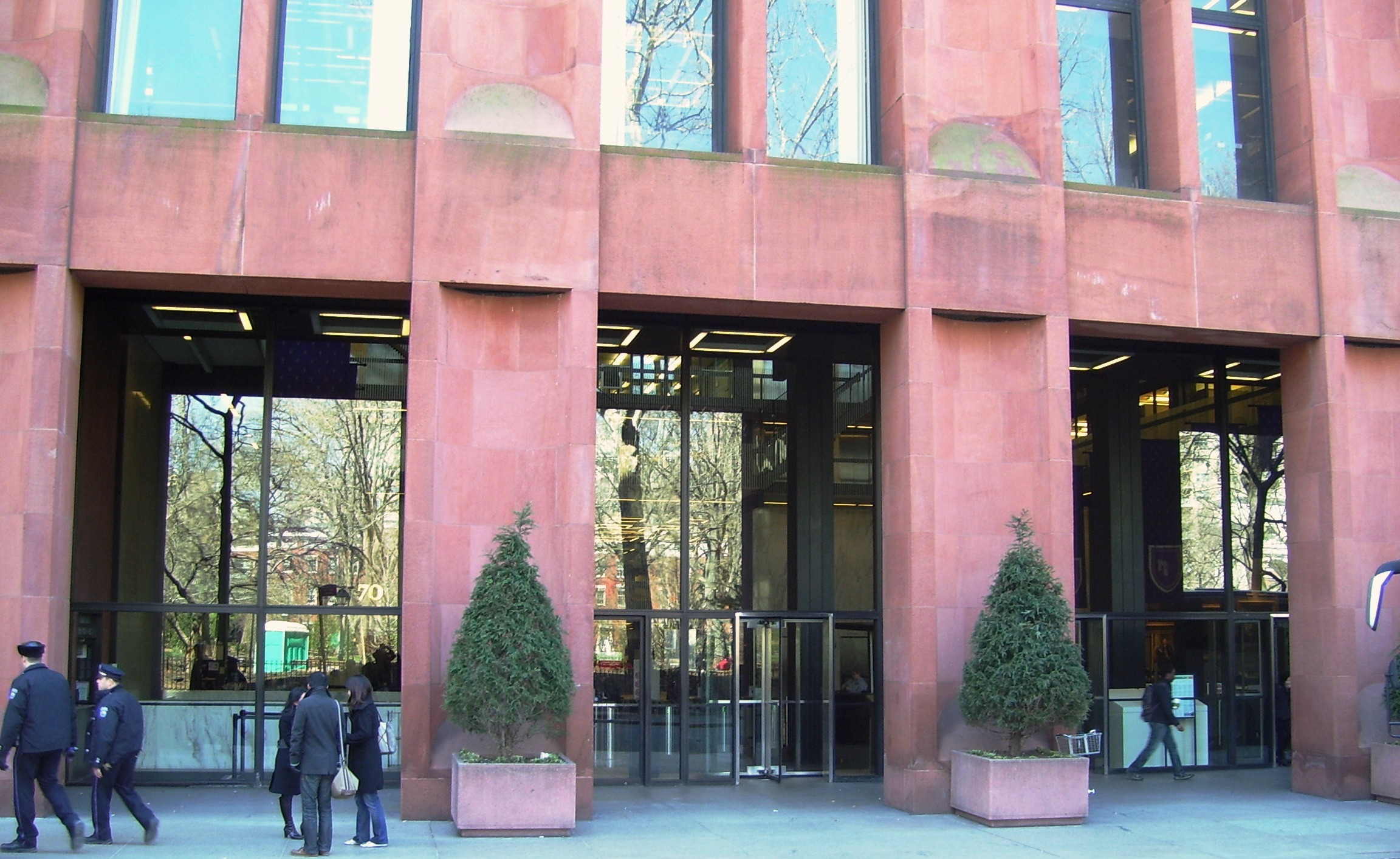 NYU's Bobst Library, south facade on West 3rd Street between Schwartz Plaza and LaGuardia Place in the Greenwich Village neighborhood Manhattan, New York City.